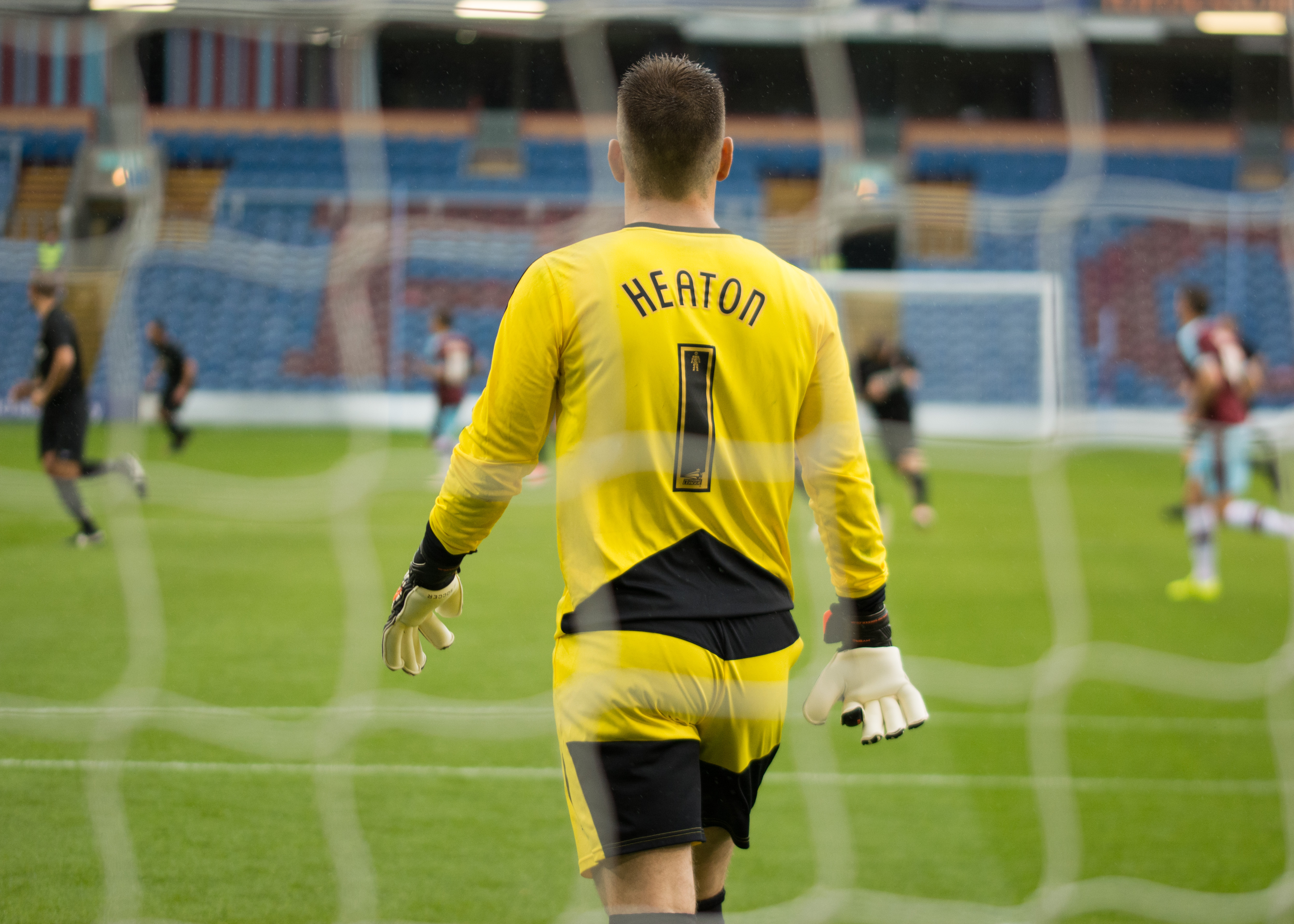 Tom Heaton watches proceedings as Burnley play Bradford City in a pre-season friendly at Turf Moor.